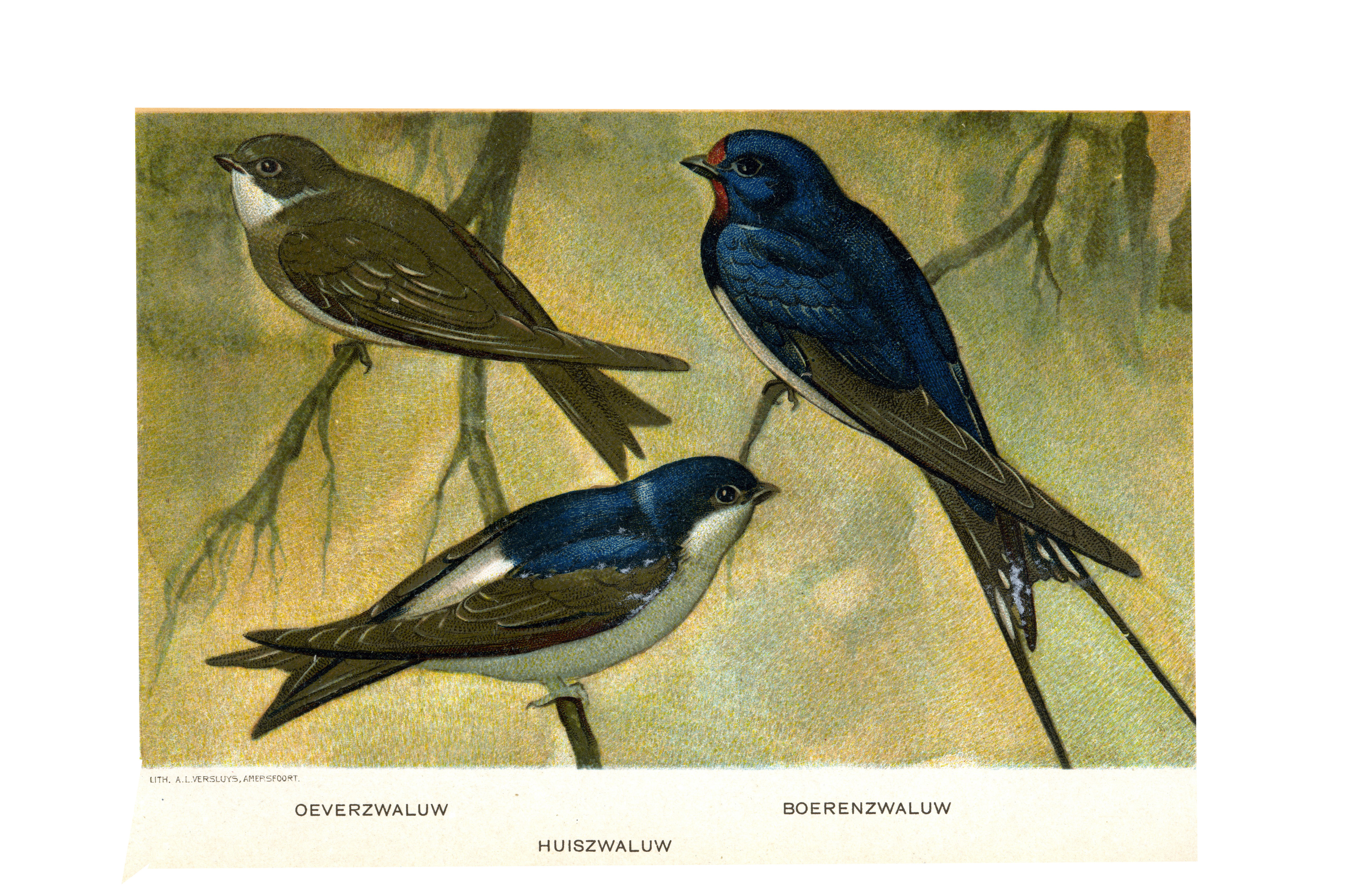 Sand martin, Common house martin, Barn swallow, family of Swallows